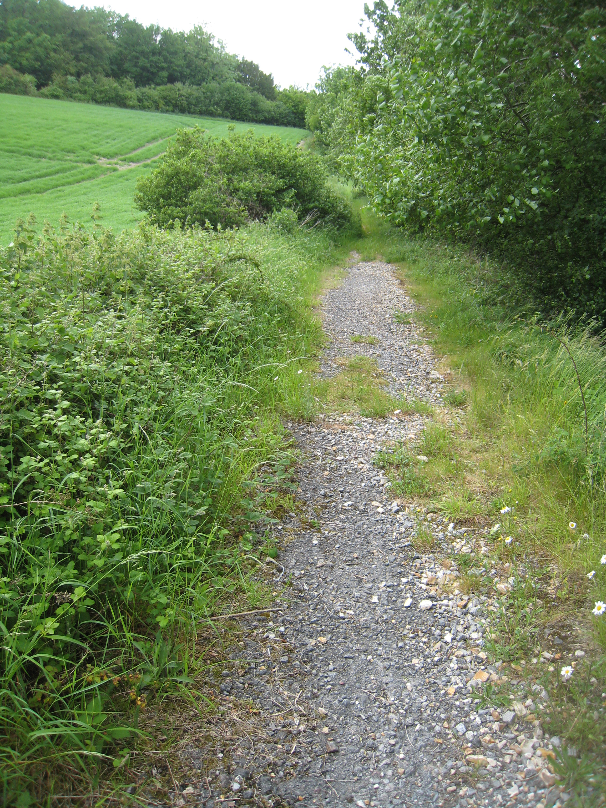 The "road" connecting the quarry and lime kilns